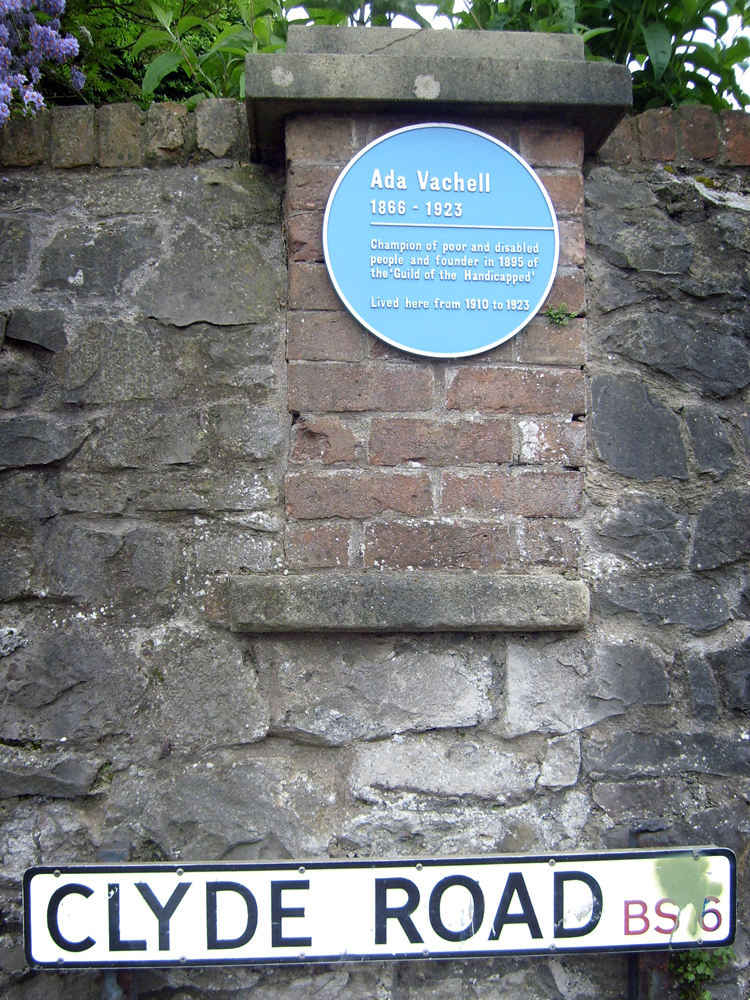 Ada Vachell 1866 1923 Sister Ada cared for the "handicapped"